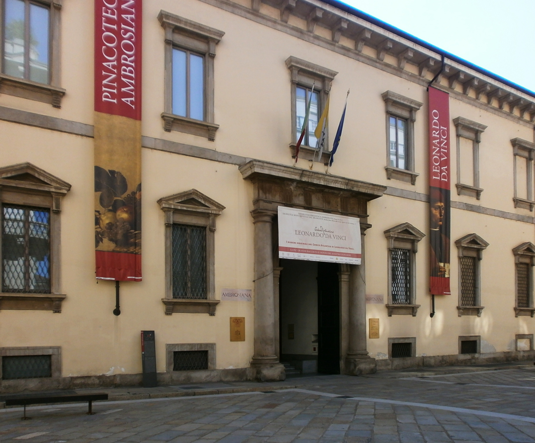 Pinacoteca Ambrosiana in Milan - ingresso (entrance)